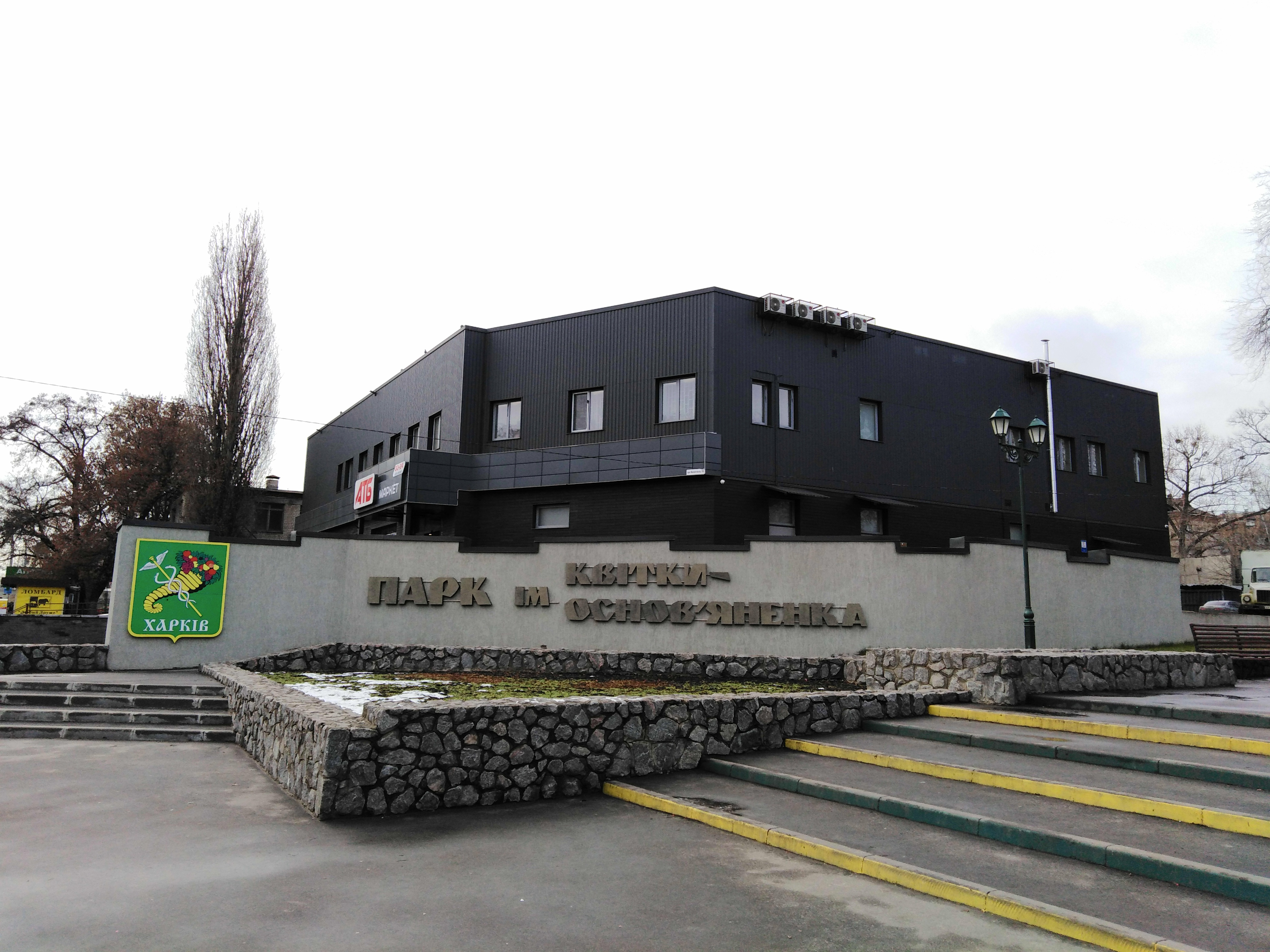 Kvitka-Osnovyanenko Park in Kharkiv, Ukraine